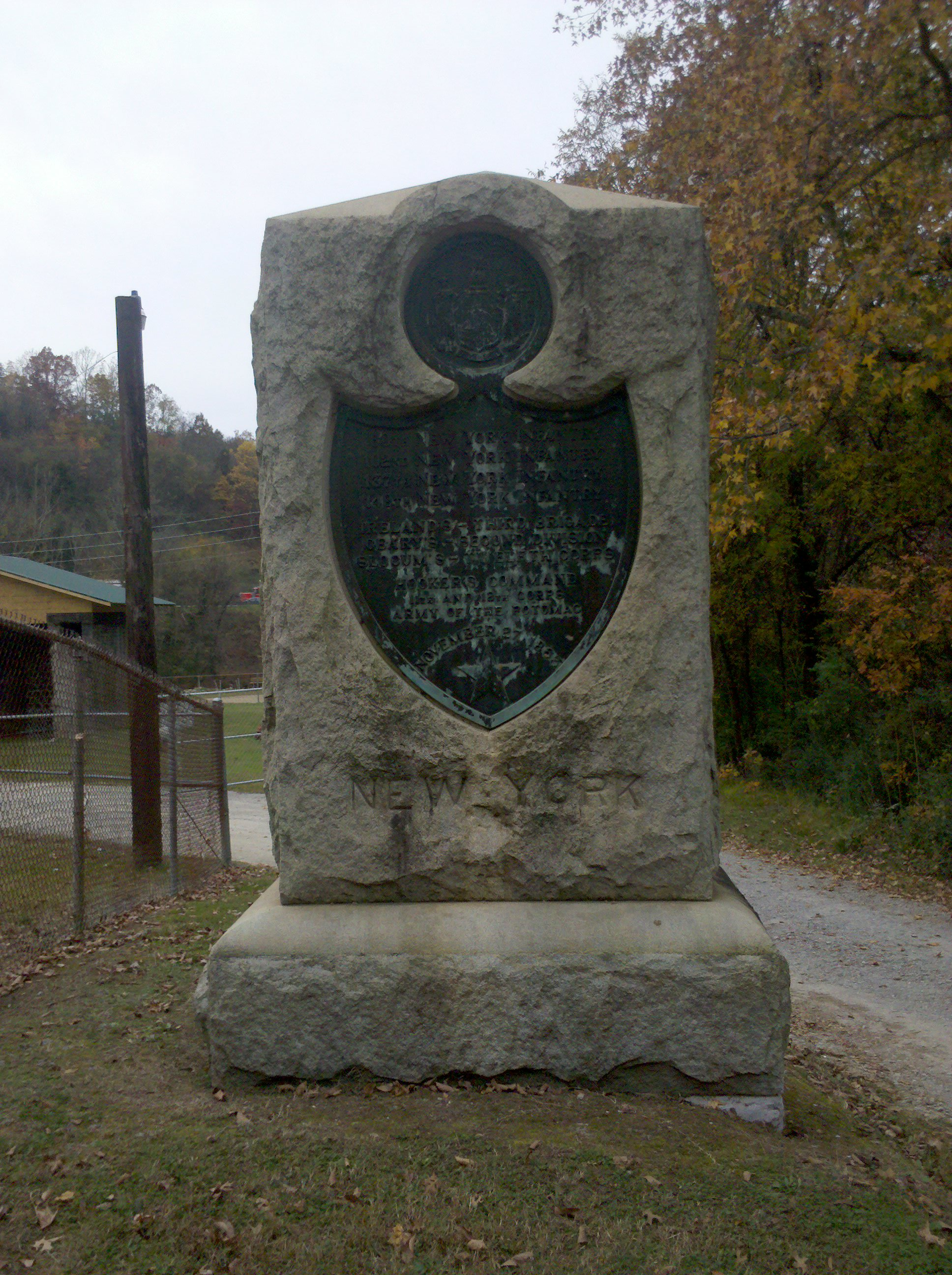 Monument to soldiers from New York who sustained heavy casualties stands near Tiger Creek at the Ringgold Water Treatment Plant. The property for the monument was sold to the State of New York by Jesse Felker and his wife Mary on 9/17/1894 (Catoosa Deed Book I, p.237)